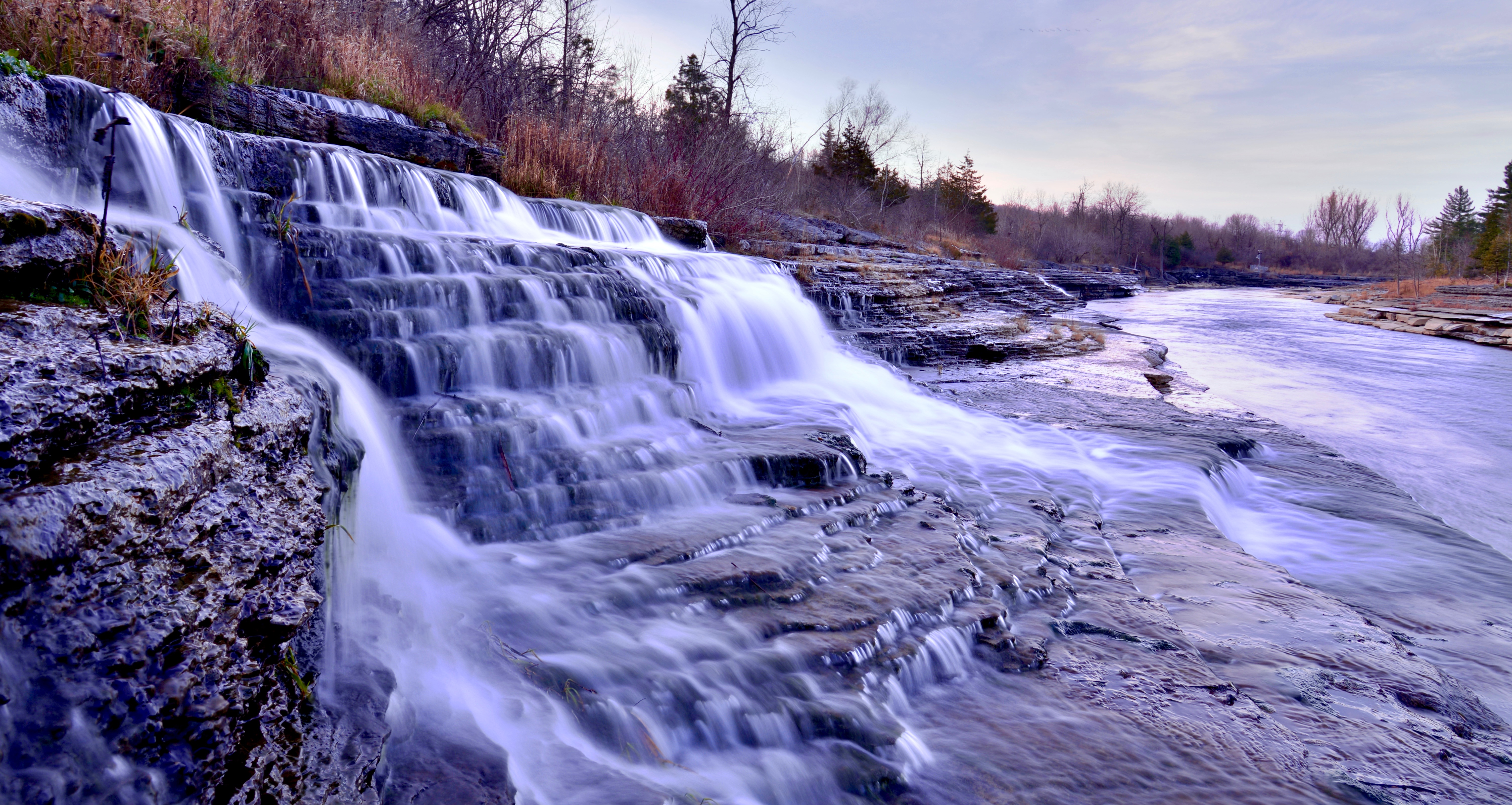 A small tributary cascade waterfall on the Black River, just south of New York Rte 3 near a canoe launch point on the Black River Trail